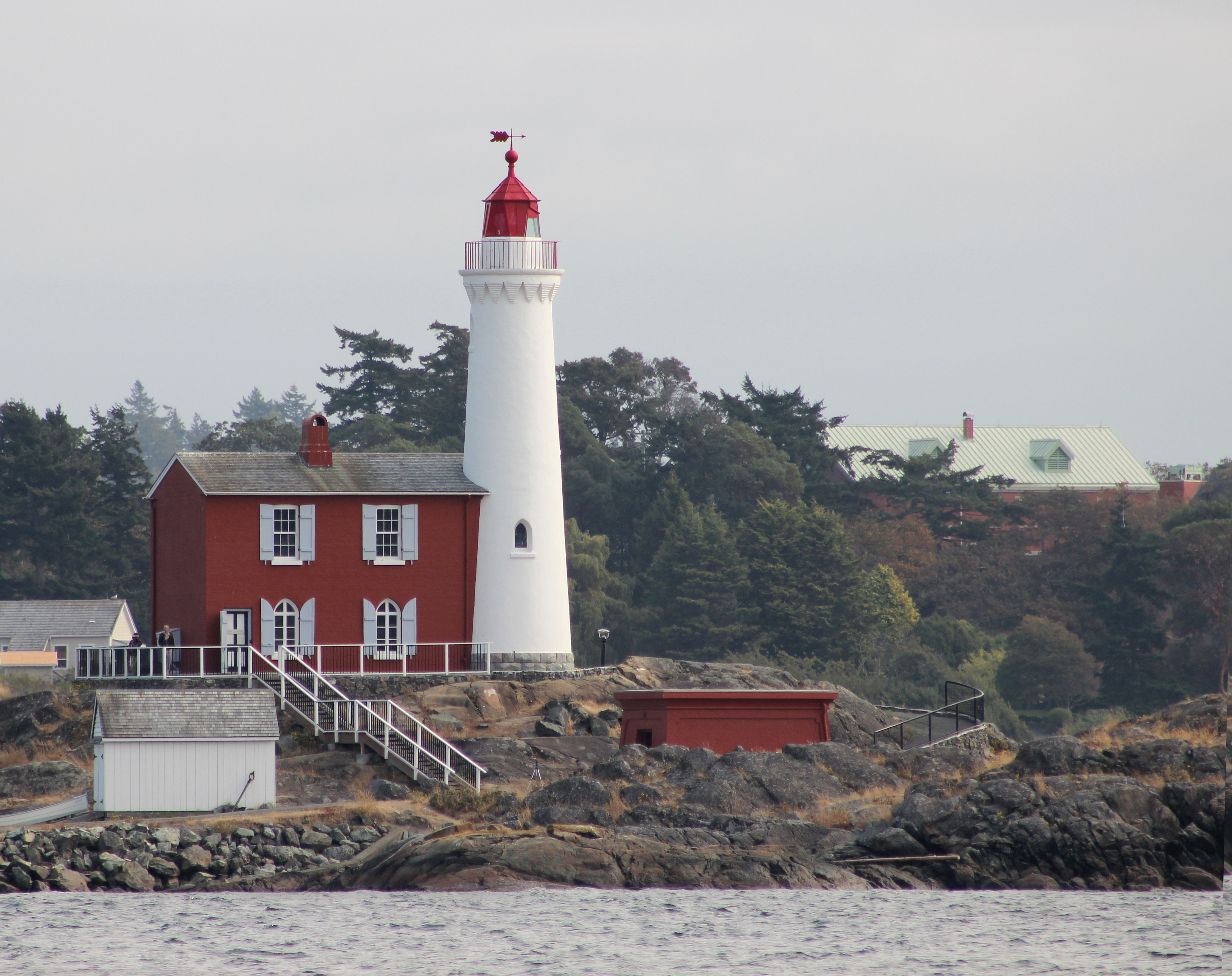 fisgard lighthouse by sam gusway